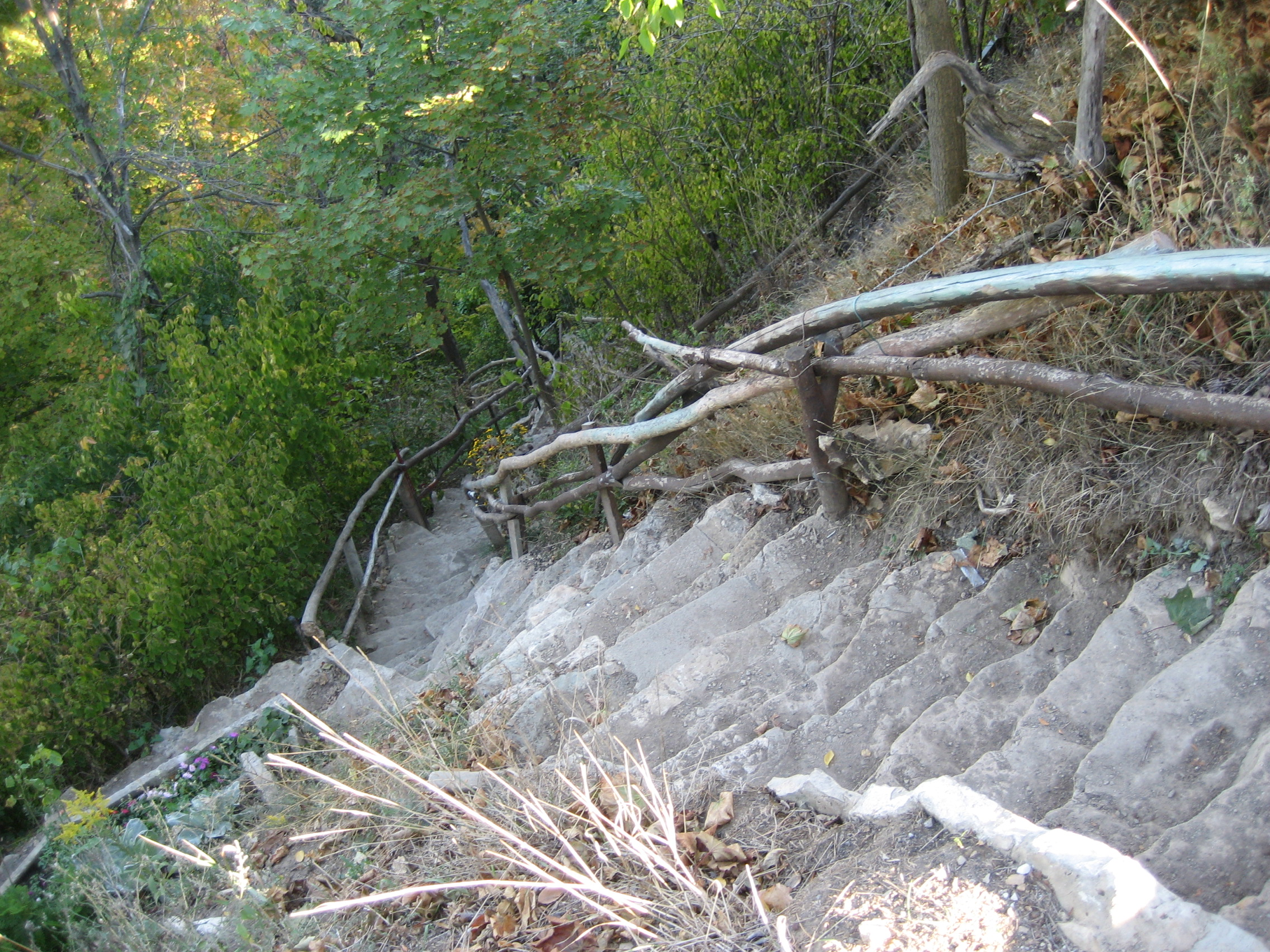 Uli's Stairs, Near Fennell Avenue & Upper King's Forest Park, Hamilton